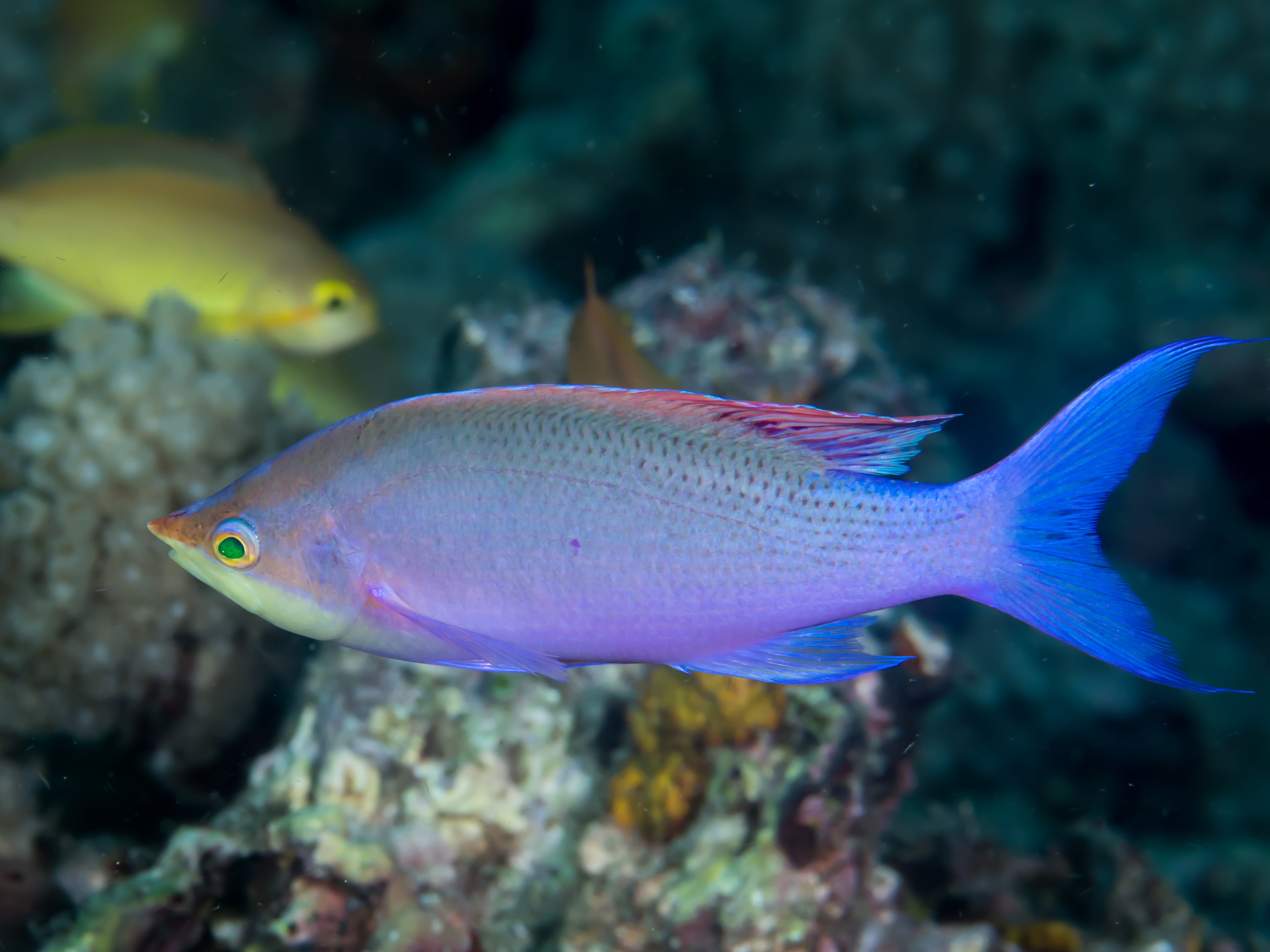 Romblon, Philippines - Purple anthias (Pseudanthias tuka)